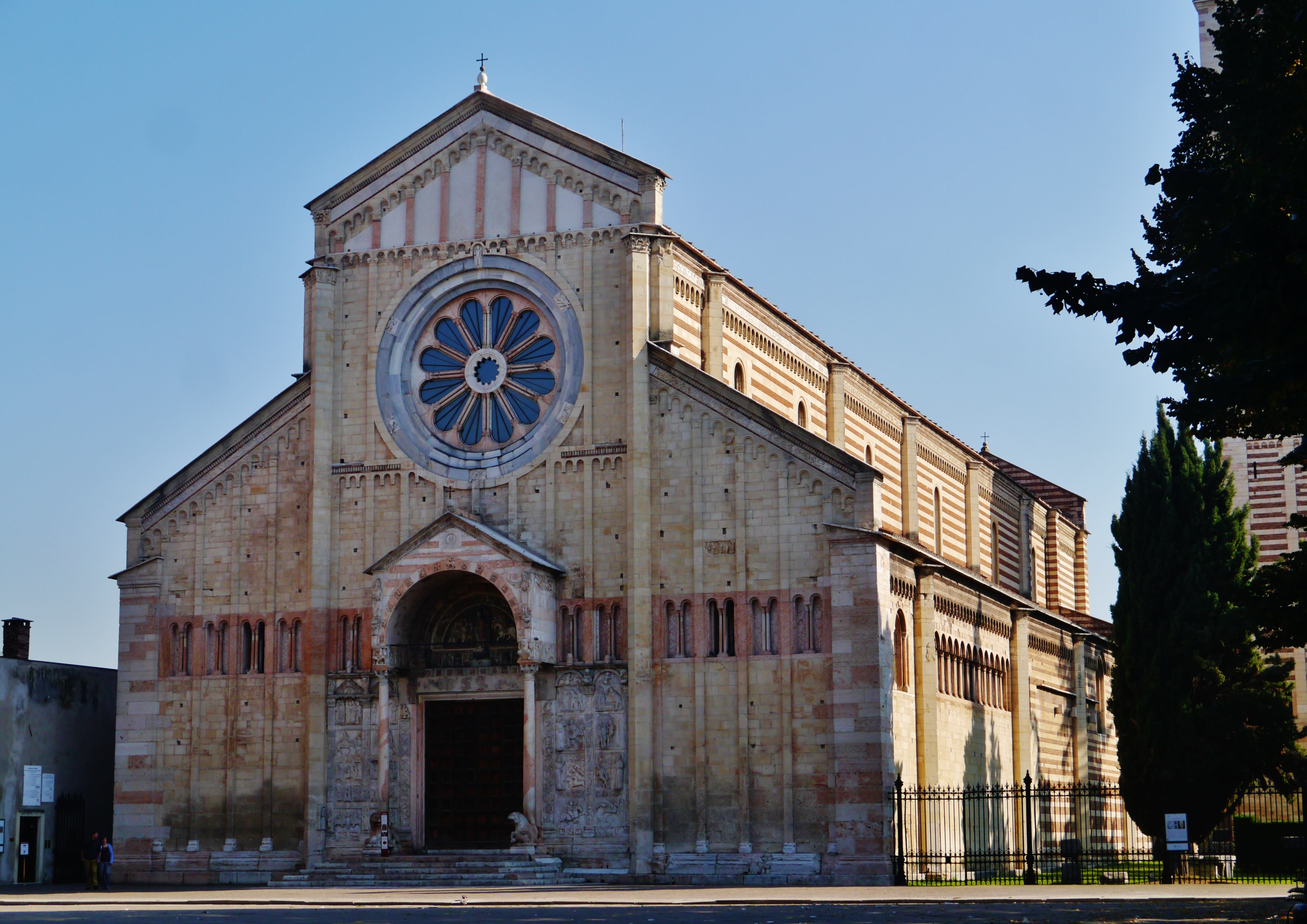 Facade of the Basilica of St. Zeno the Great, Verona, Province of Verona, Region of Veneto, Italy